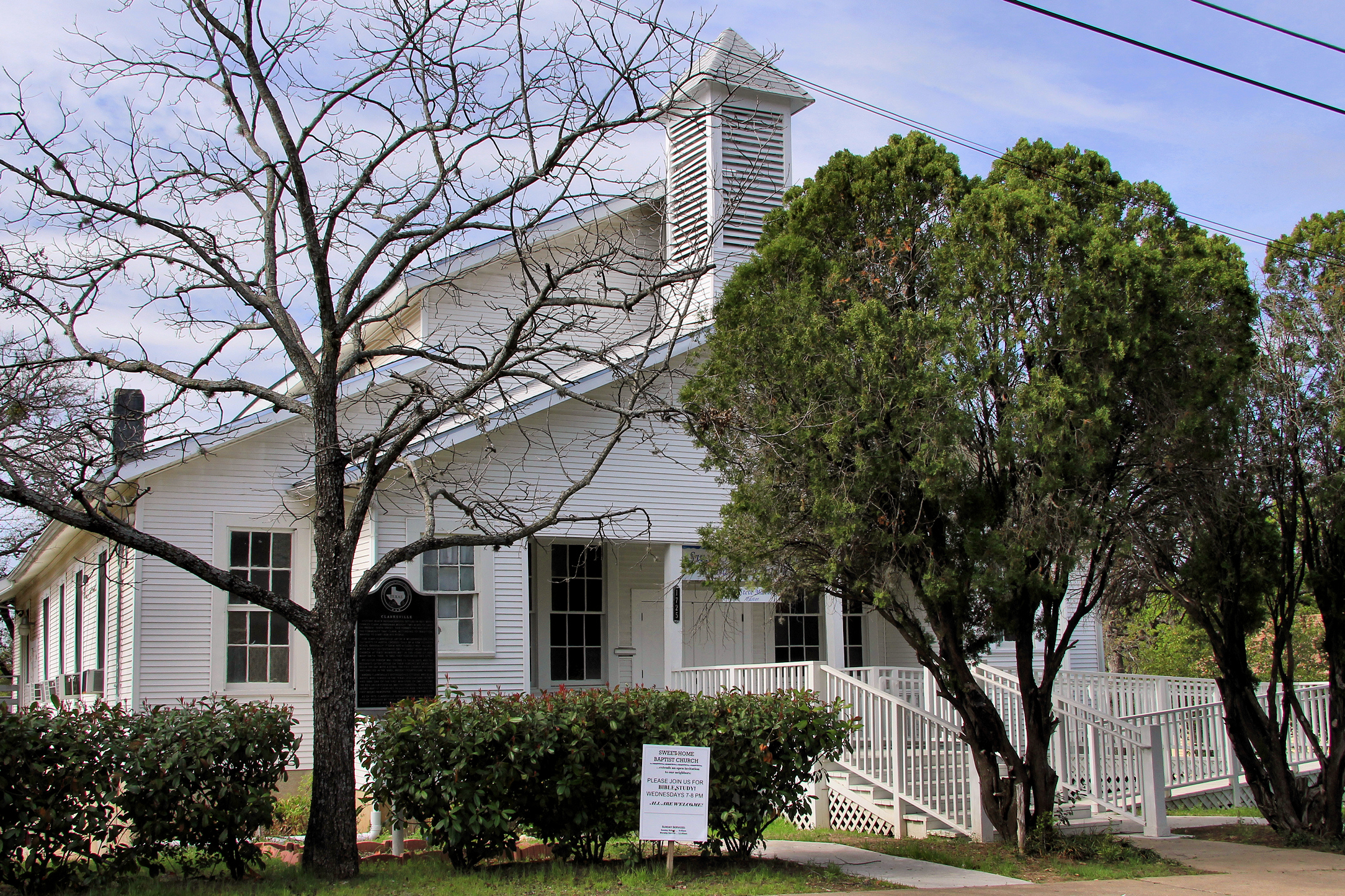 The Sweet Home Baptist Church in the Clarksville Historic District (Austin, Texas). The district was listed on the National Register of Historic Places on December 1, 1976.